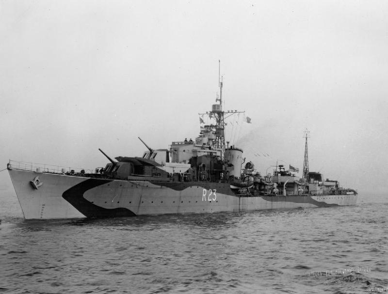 Photograph of British T class destroyer HMS Teazer